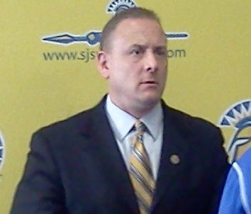 San Jose State University men's basketball coach Dave Wojcik after his introductory press conference on April 2, 2013.